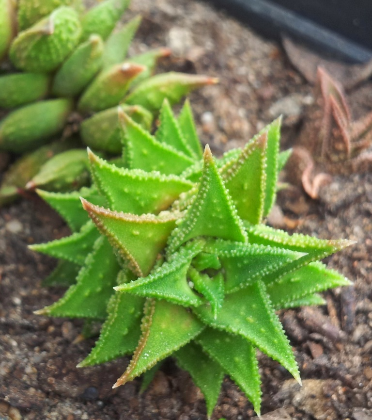 Astroloba corrugata - previously aspera. Detail of plant in cultivation. Cape Town.